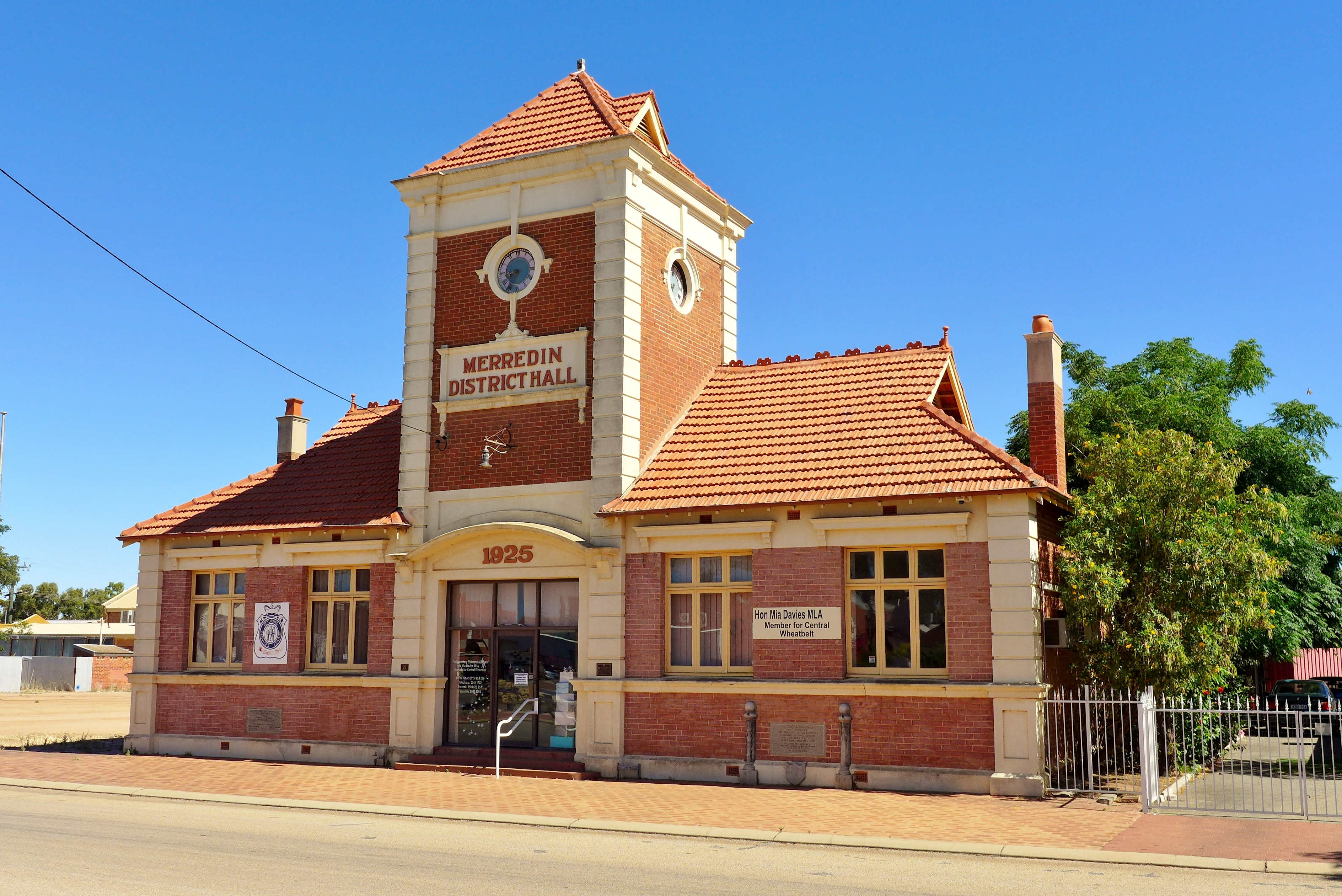 View of the Merredin District Hall, Mitchell Street, Merredin, Western Australia.